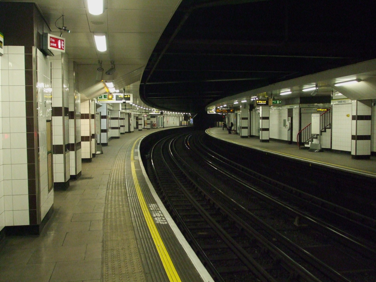 Tower Hill tube station bay platform looking west. The eastbound through platform is on the right.